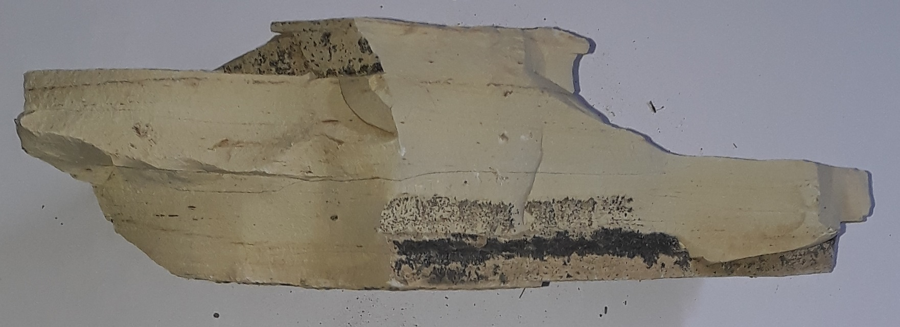 Rock sample 2 Interbedded lacustrine Meri'a Ziban